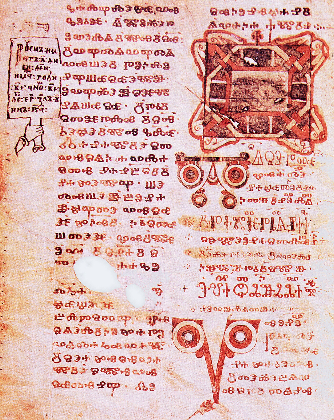 "Codex Assemani", 158 l.